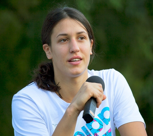 Serbian handballer Andrea Lekic on the Győri Audi ETO KC season opening event in 2011.